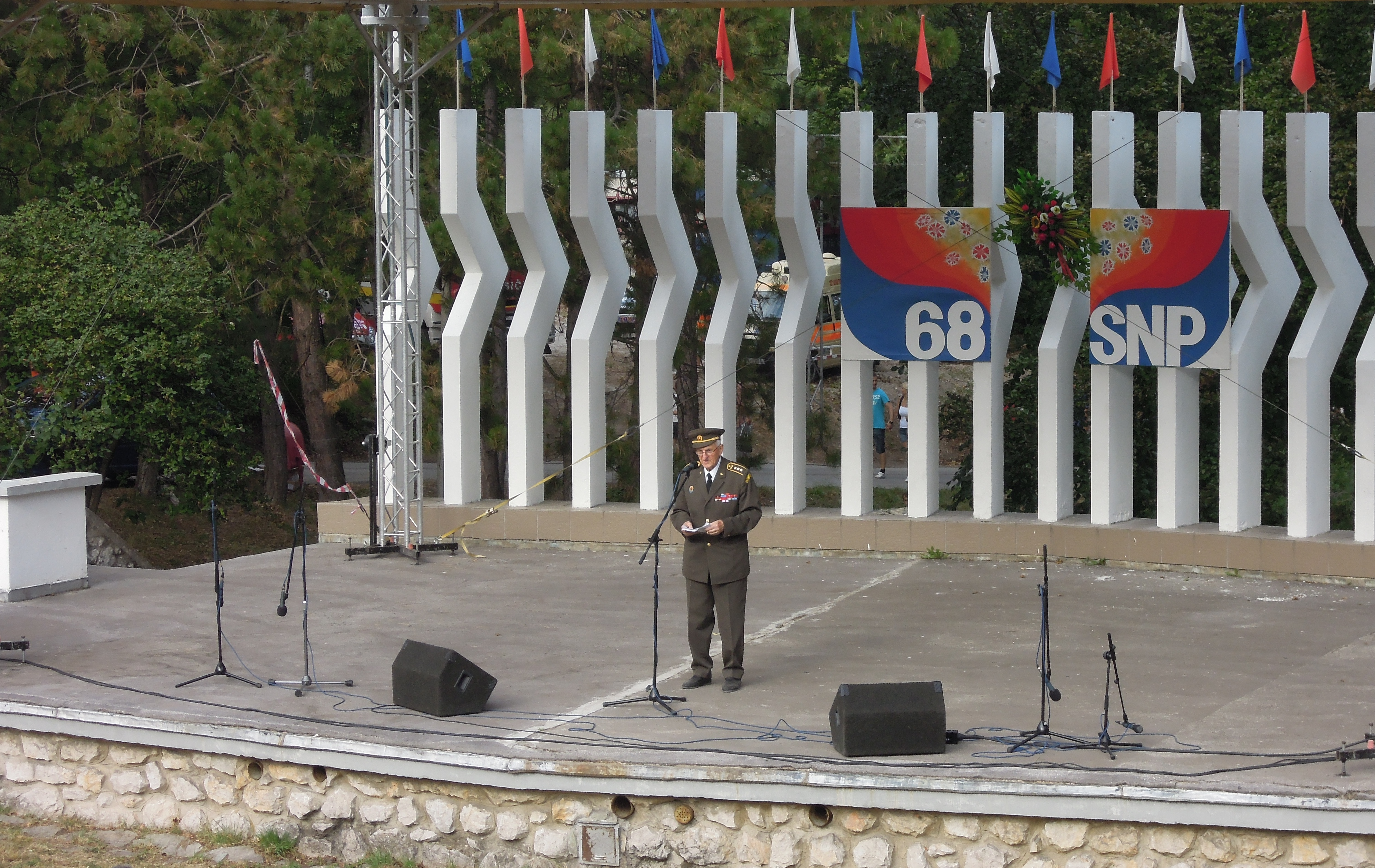 Celebration of Slovak National Uprising 68th Anniversary on the Jankov Vŕšok near Uhrovec, Slovakia.